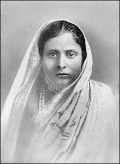 Gyana Prabha Ghosh "Guru Ghosh" Mother from Paramahansa Yogananda. Lived from 1868-1904. Devotee from Lahiri Mahasaya. Portrait of the mother of Paramahansa Yogananda taken c. 1910 and first published in his 1946 public domain autobiography.